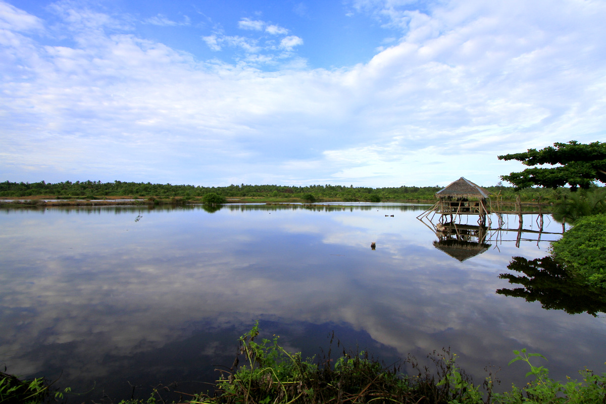 Fish Pond in Brgy. Malatgao, Narra, Palawan